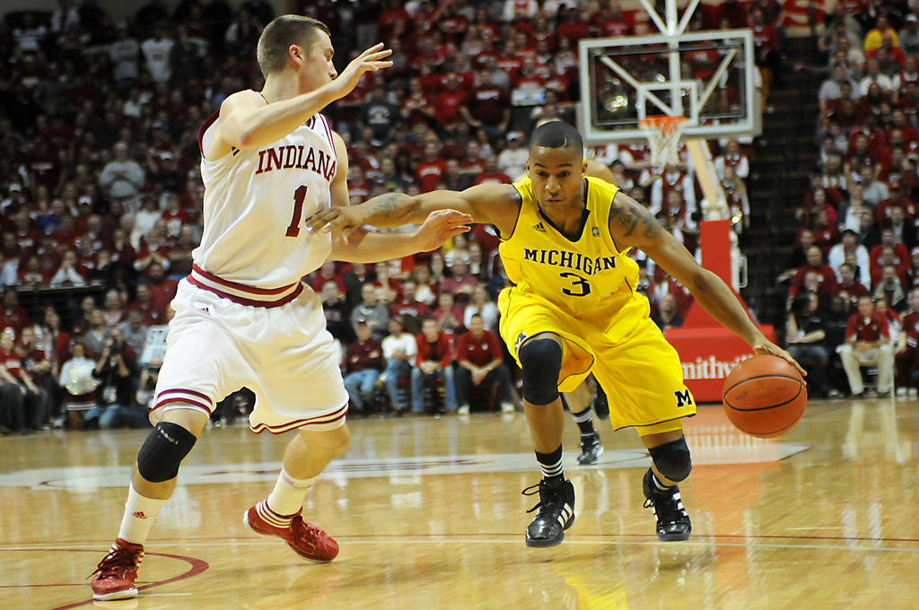 Trey Burke drives against Jordan Hulls